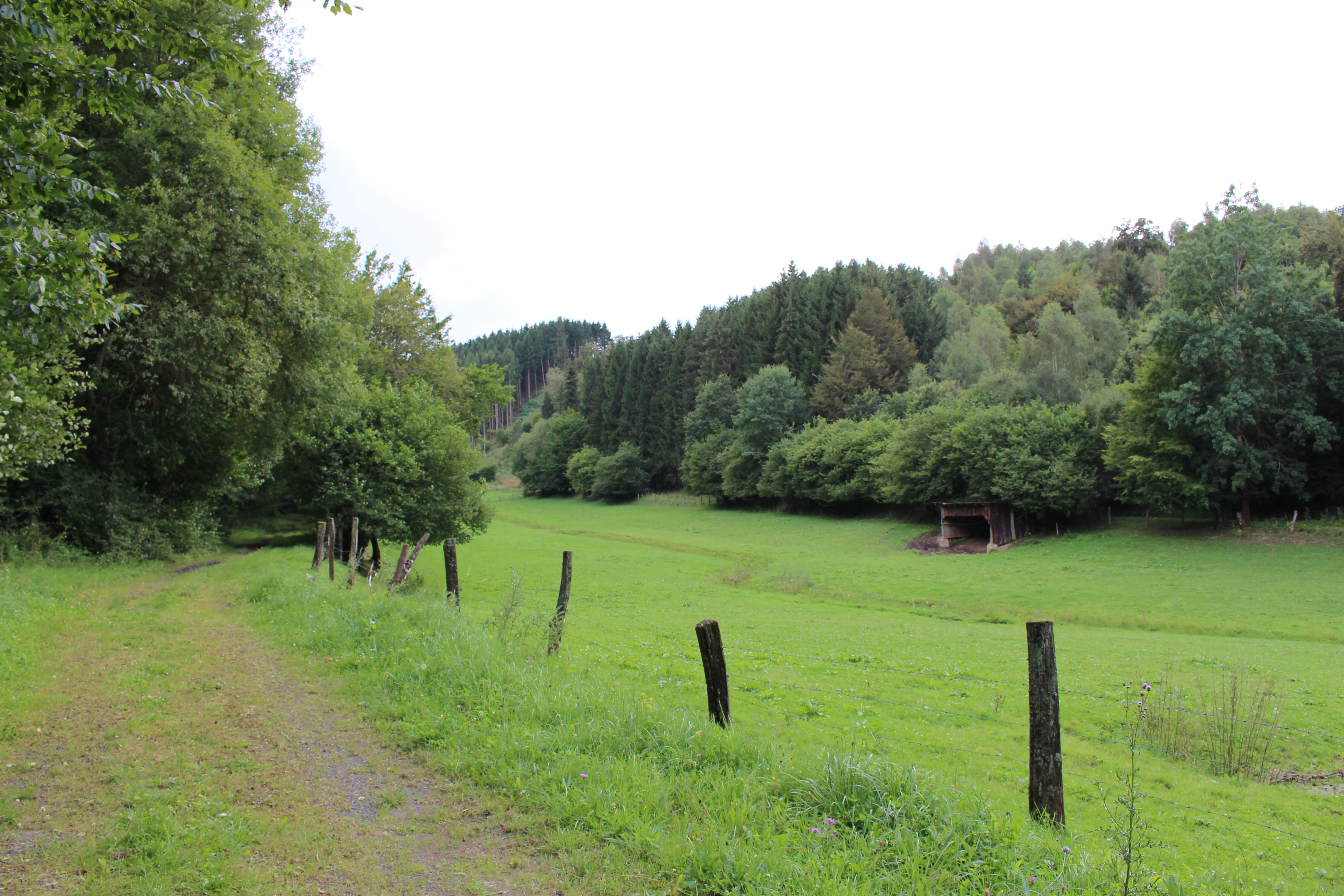 Valley of the Boxbach, close to Wiesenbach, Breidenbach, Hesse.